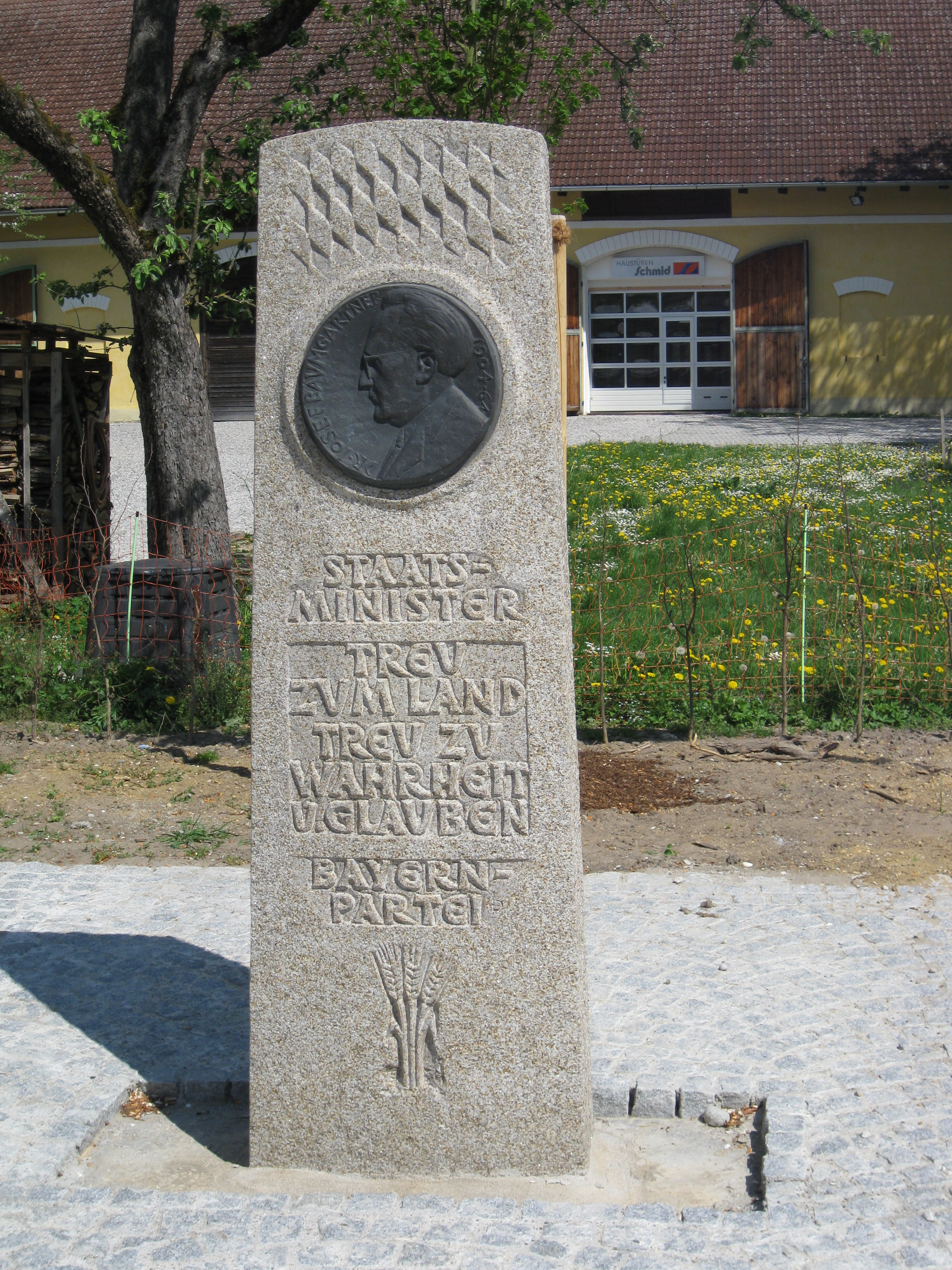 Memorial for Joseph Baumgartner, former bavarian minister